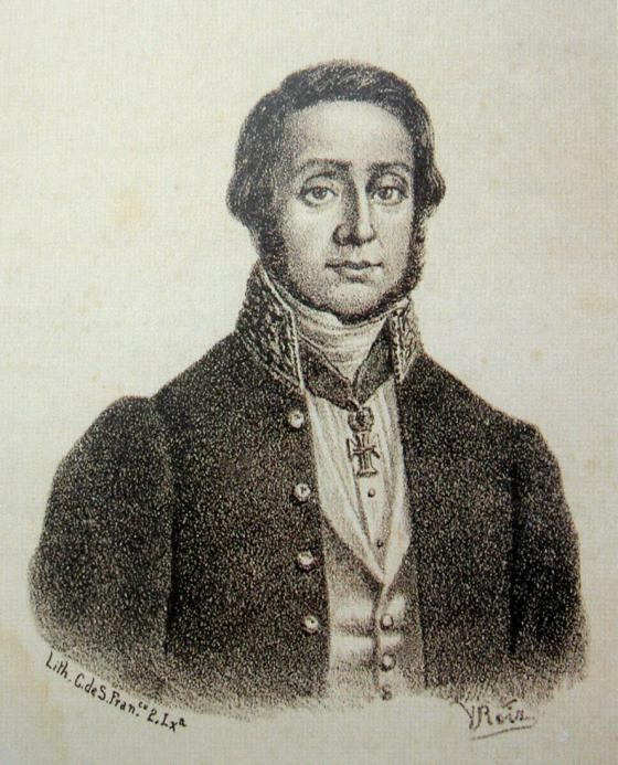 Manuel de Medeiros da Costa Canto e Albuquerque, 1st Baron of Laranjeiras